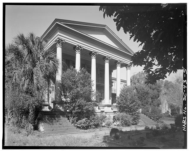 SOUTH (FRONT) ELEVATION, FROM SOUTHWEST - I. Jenkins Jenkins Mikell House, Rutledge Avenue and Montague Street, Charleston, Charleston County, South Carolina